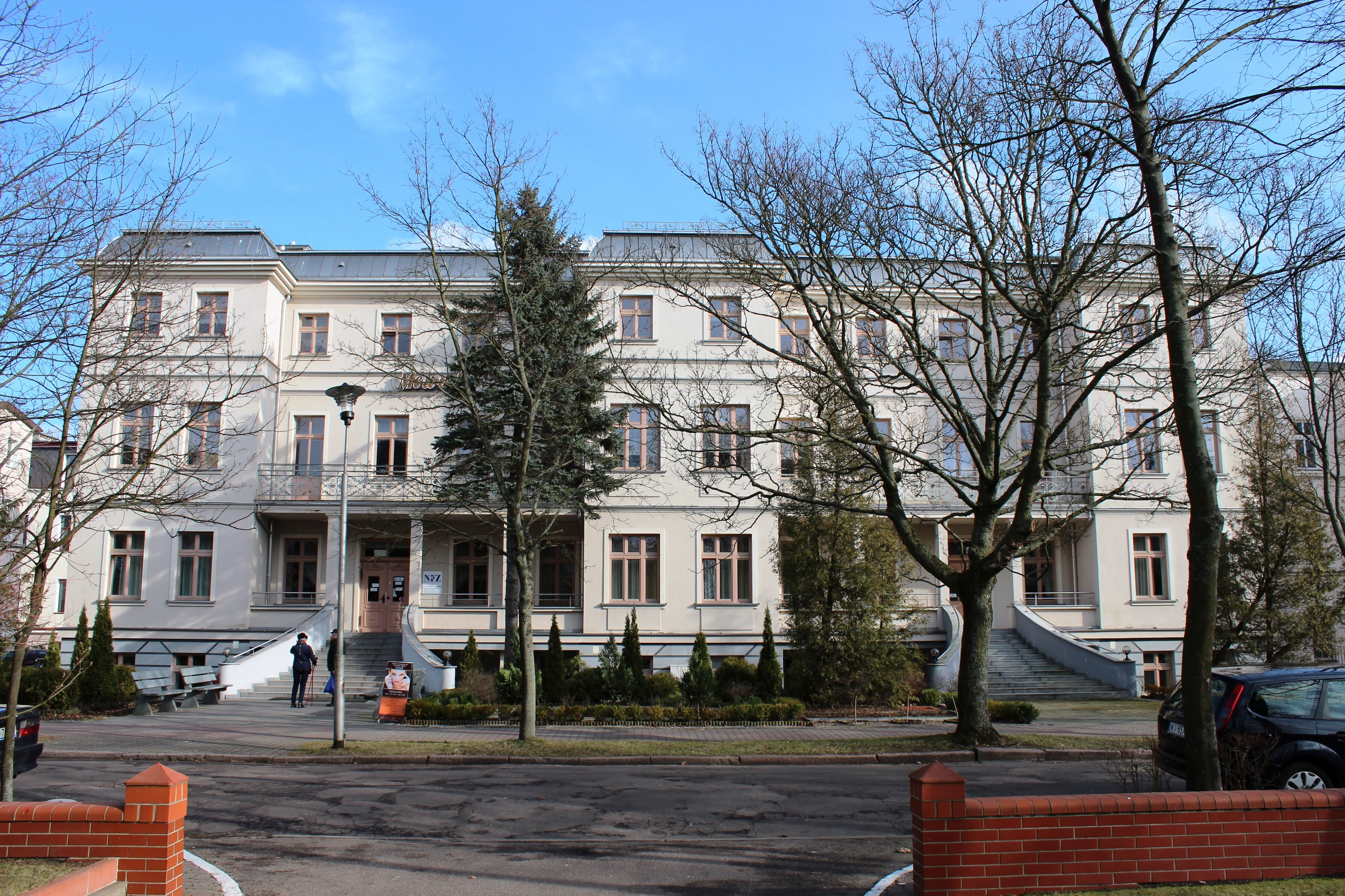 Mewa IV Sanatorium in Kołobrzeg